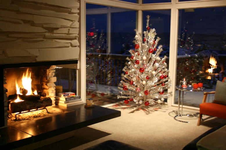 An aluminum Christmas tree in Bellevue, Washington, USA.